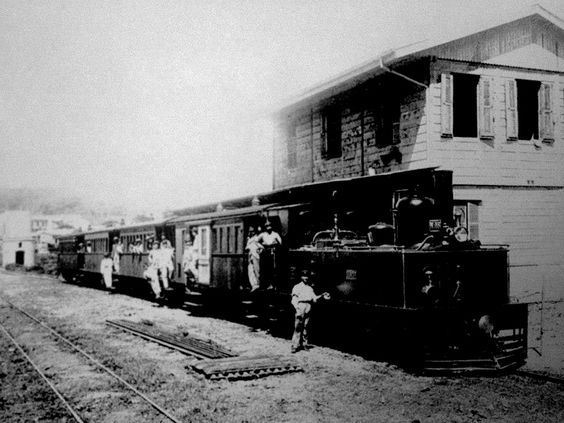 Train station in Yauco, Puerto Rico during the 1800s, prior to the 1898 U.S. invasion.